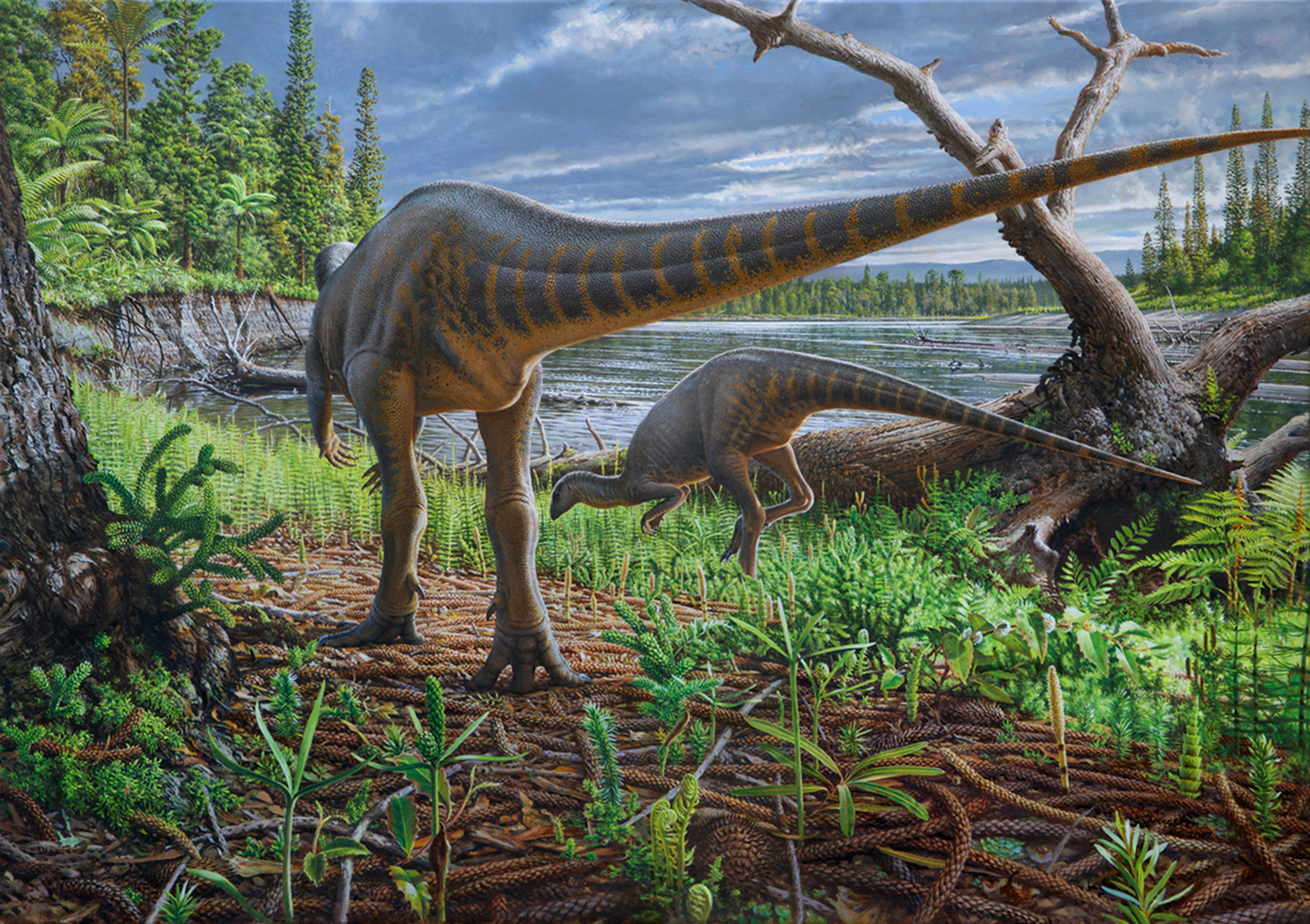 Figure 36: Artist’s interpretation of the early Albian, volcaniclastic, floodplain palaeoenvironment within the Australian-Antarctic rift graben, in the region of Eric the Red West. Scene depicting two individuals of Diluvicursor pickeringi on the cutbank of a high-energy meandering river, regional floral components and distant rift margin uplands. Floral components potentially included forest trees of Araucariaceae (Agathis and Araucaria), Podocarpaceae and Cupressaceae and lower story/ground cover plants, including pteridophytes (ferns, including equisetaleans), hepatics, lycopods, cycadophytes, bennettitaleans, seed-bearing fern- or cycad-like taeniopterids and early Australian angiosperms. Artwork by P. Trusler, with permission.